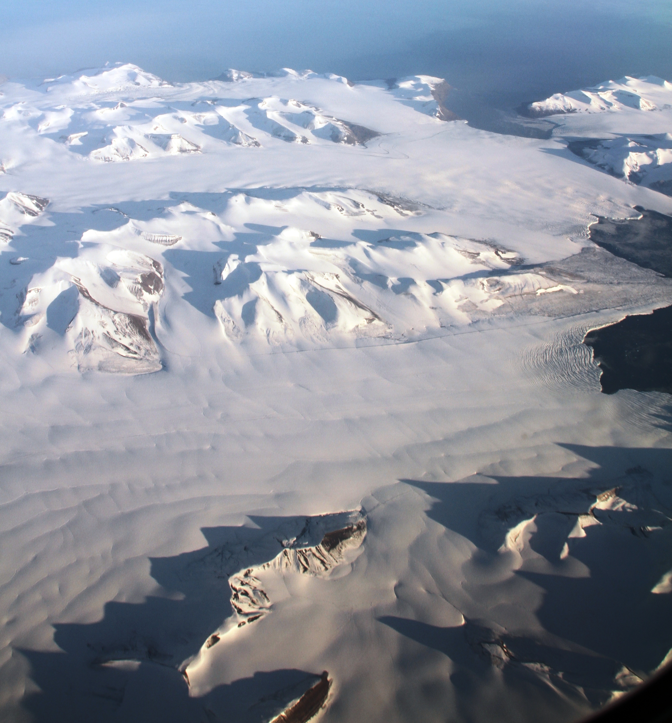 Aerial view of Torell Land - southeastern Spitsbergen - Svalbard. Photo taken from the west towards the east.